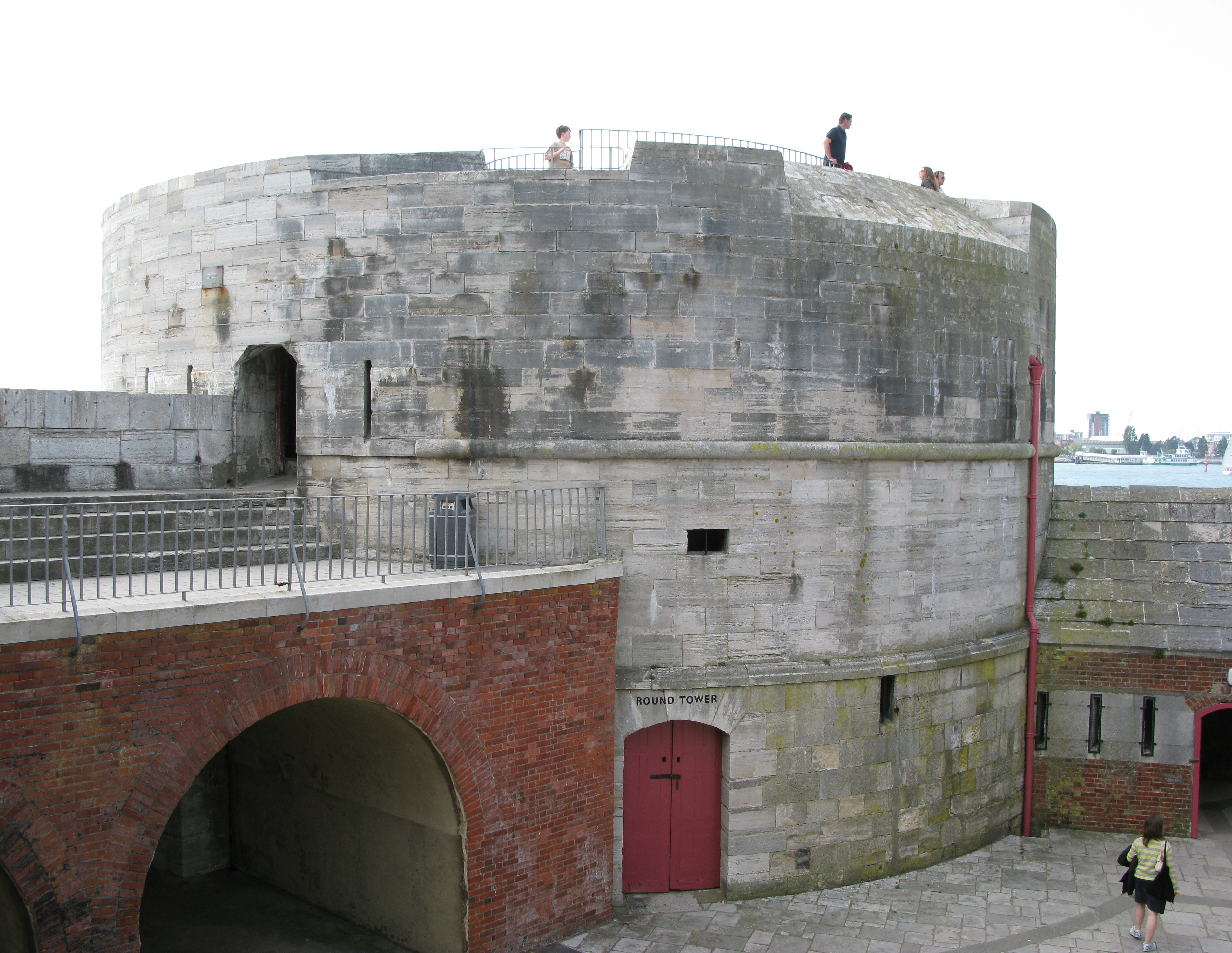 Photo of the Round Tower in portsmouth